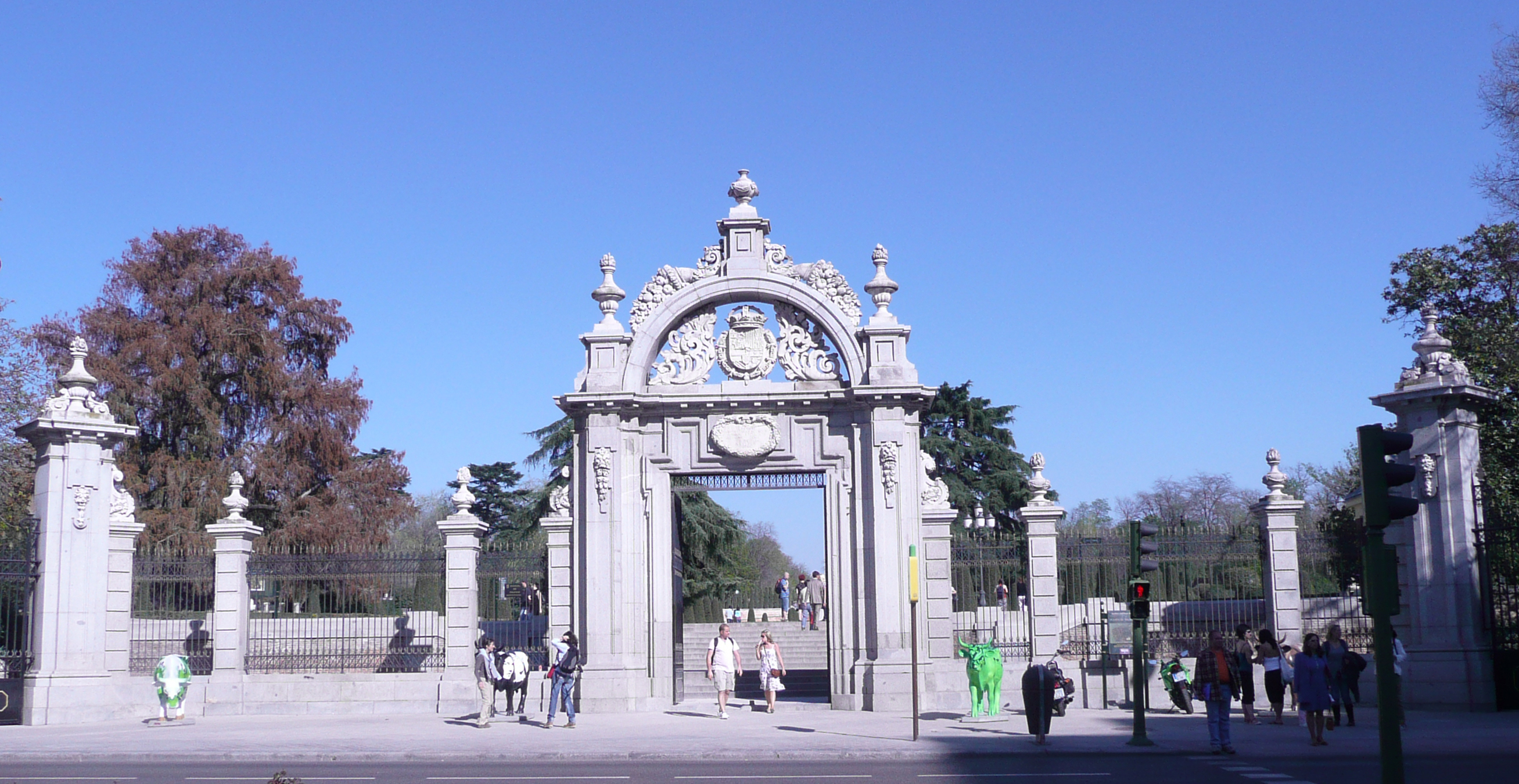 Puerta de Felipe IV ("Gate of Philip IV"). One of the entrances of the Retiro Park (Jardines del Buen Retiro) in Madrid (Spain).